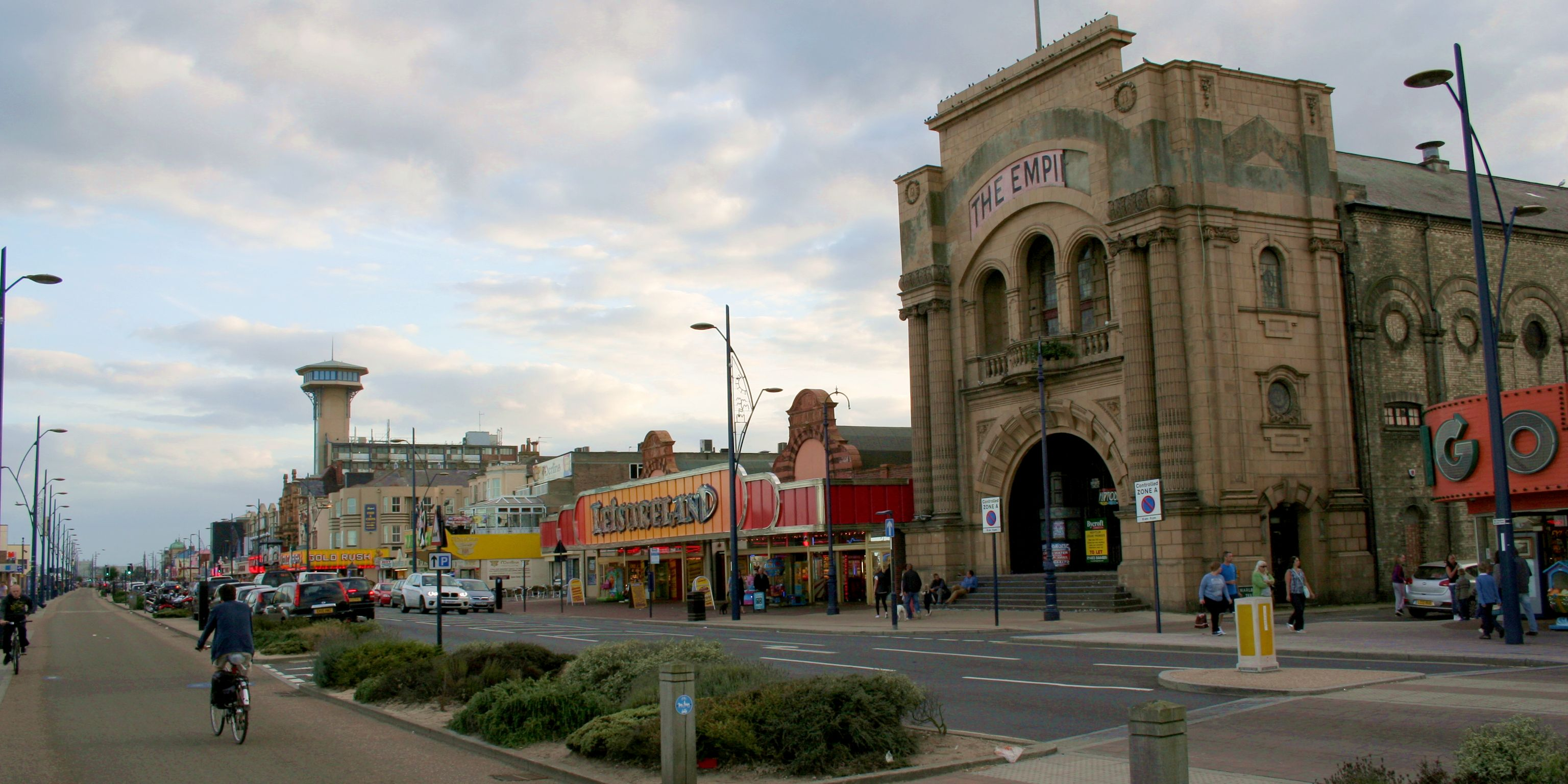 Great Yarmouth Marine Parade with the derelict Empire Building in the foreground and the Atlantis Tower in the background, in August 2013.